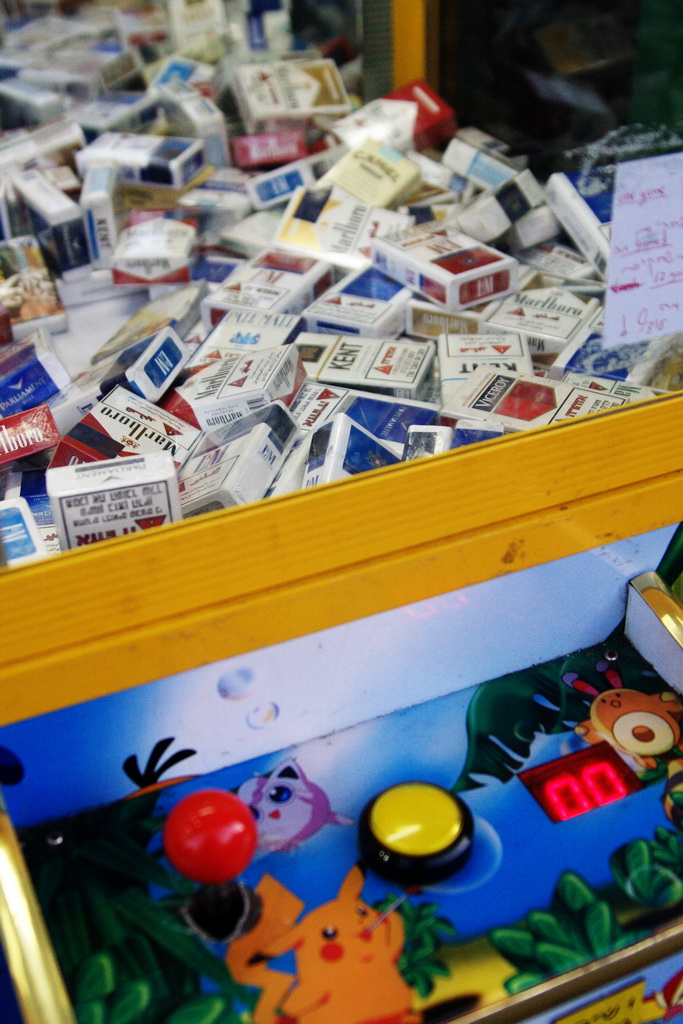 Cigarettes on sale in a Pokemon-branded toy booth in Jaffa, Israel. You know the ones with claws that you use to pick up teddy bears, and stuff like that ? Here, instead of toys, you have cigarettes - although I was later told that the cigarettes are chocolate cigarettes [likely not true, as they look exactly like real Israeli cigarettes[1 . Not sure about that, really....